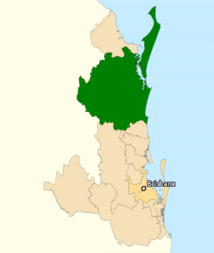 This image incorporates data that is: © Commonwealth of Australia (Australian Electoral Commission) 2009 Division of Wide Bay 2010